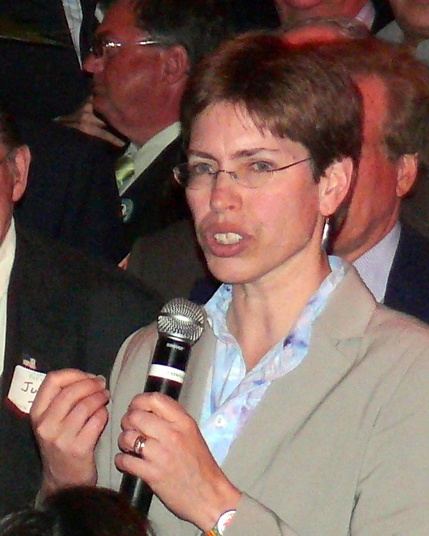 Sheila Simon, Democratic candidate for Illinois Lt. Governor, speaking at Carnavale Restaurant, Chicago (May 2010)